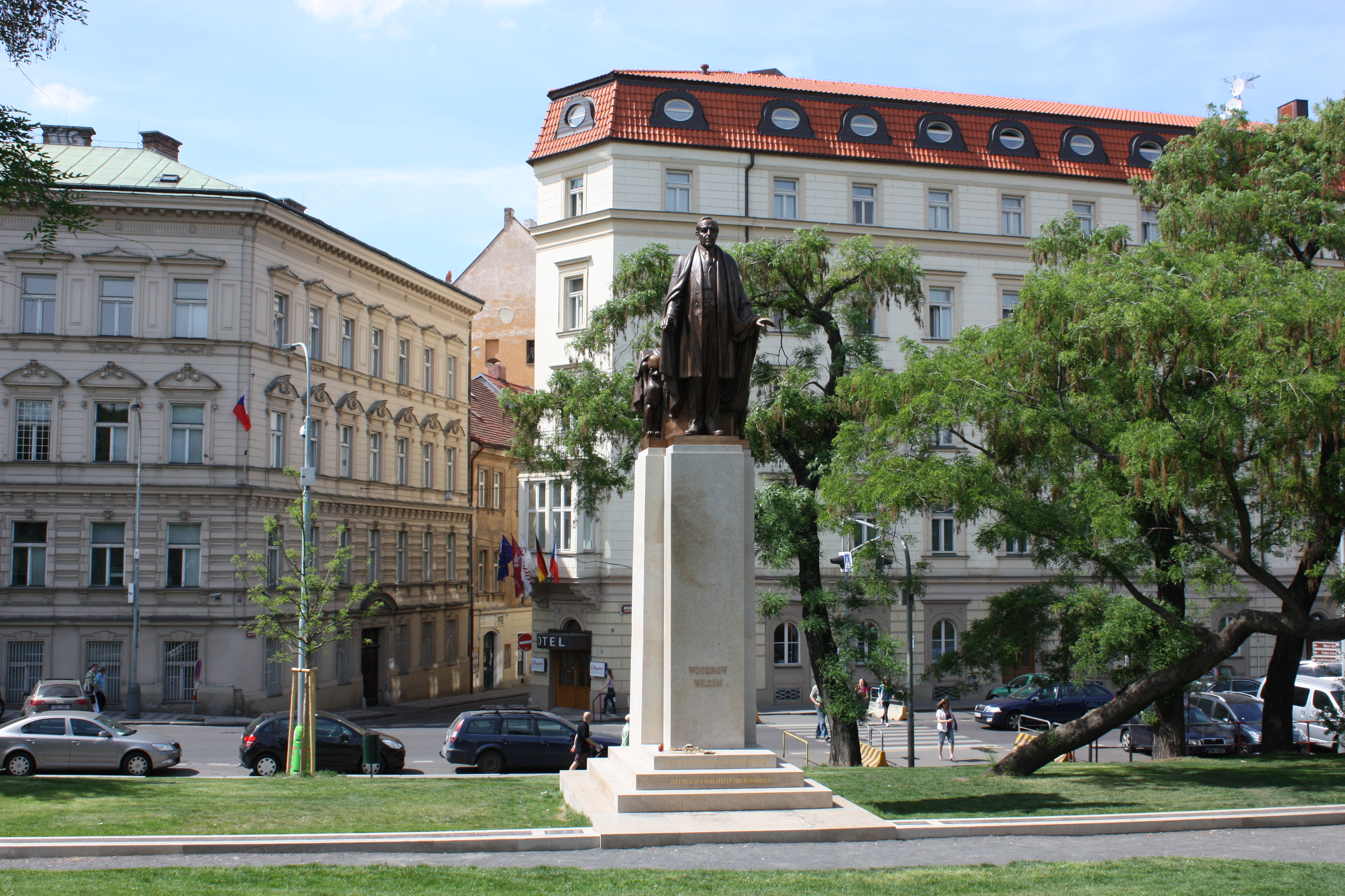 Monuments to Woodrow Wilson in Prague in front of Main railway station in Prague.